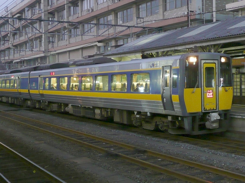 Super Matsukaze at Yonago station